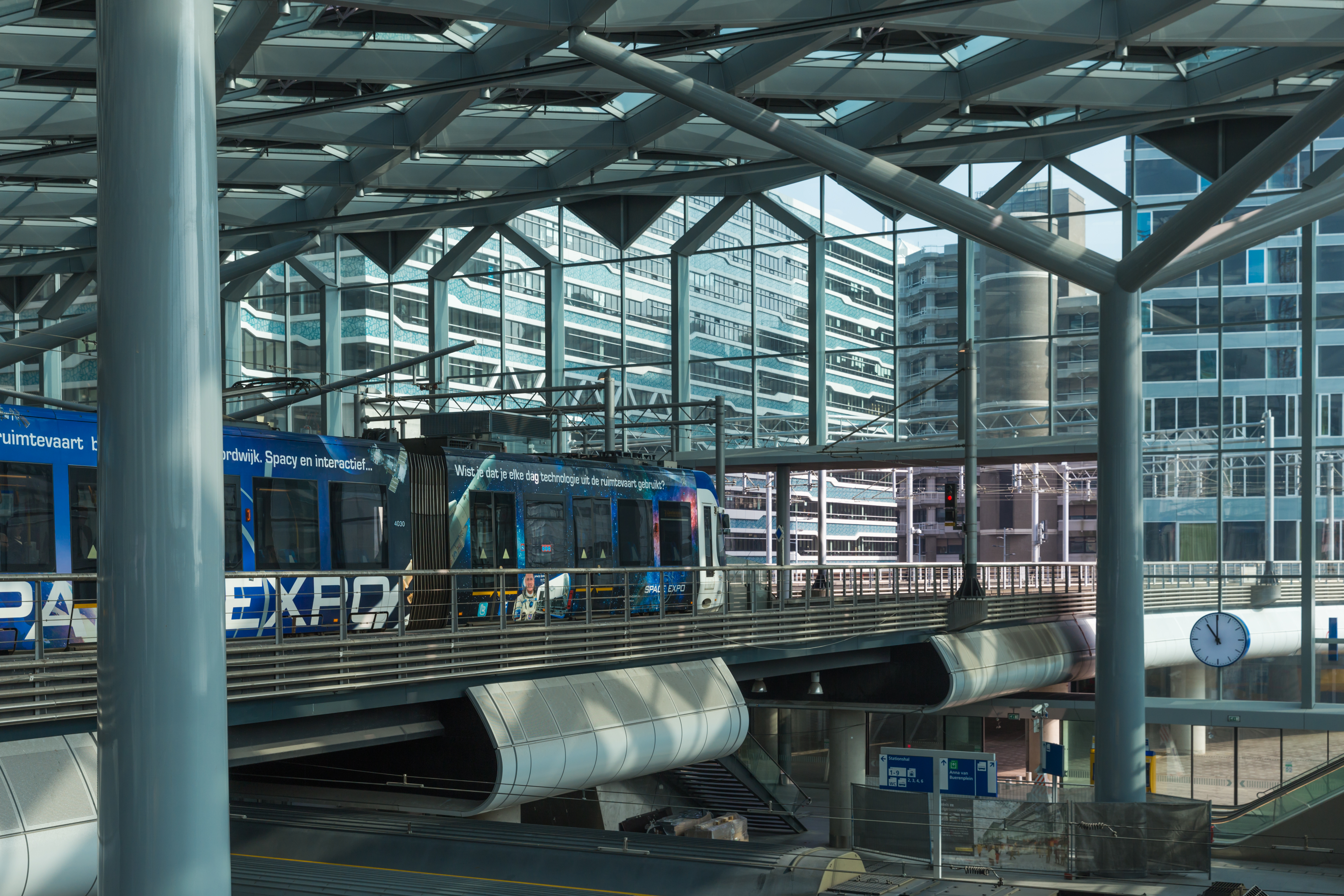 View into the interior of Central Station The Hague from the tram platform with escalator, in direction of the new tower on Babylon and the trams leaving the area of the city-center